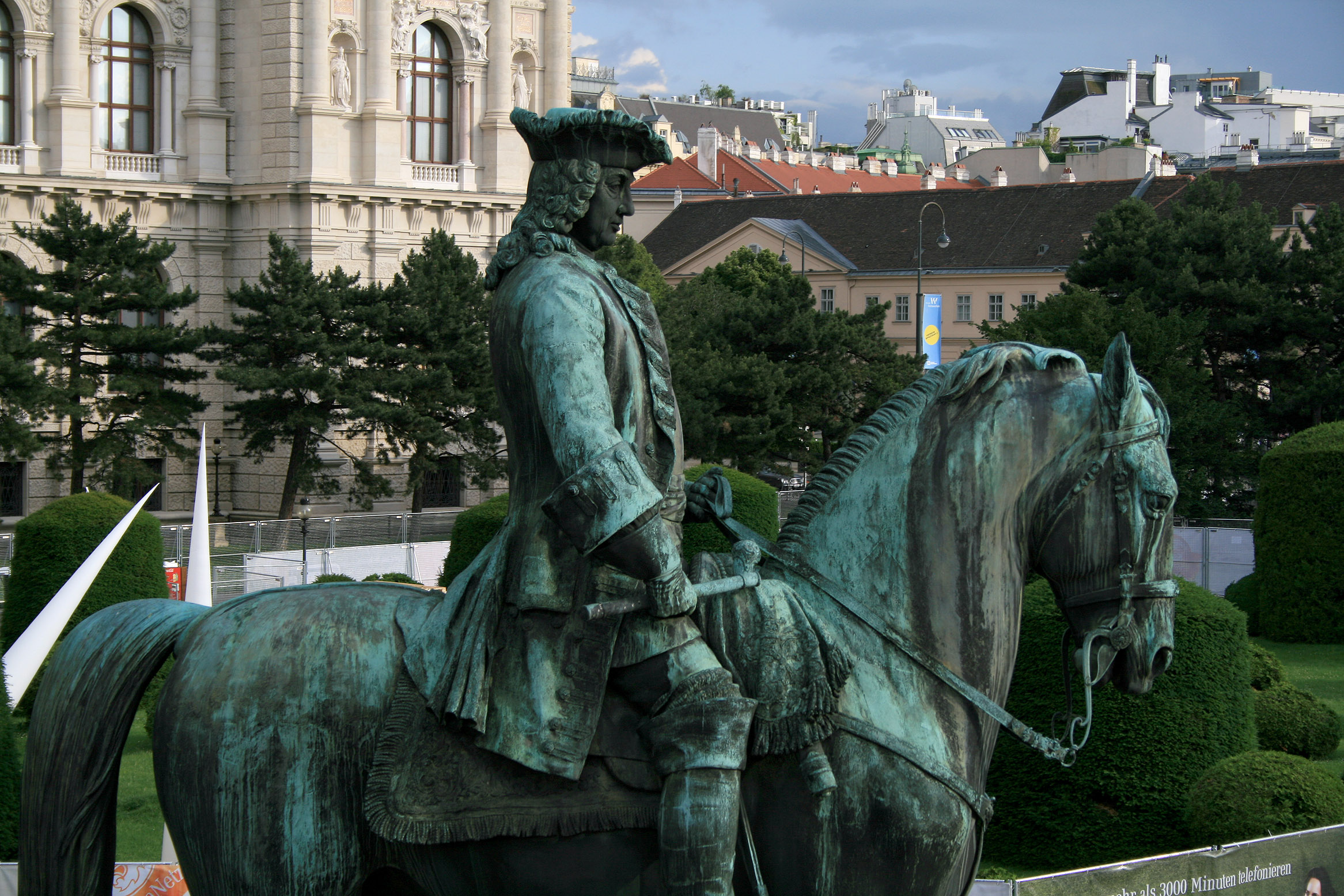 Otto Ferdinand von Abensberg und Traun, part of Empress Maria Theresia monument in Vienna.